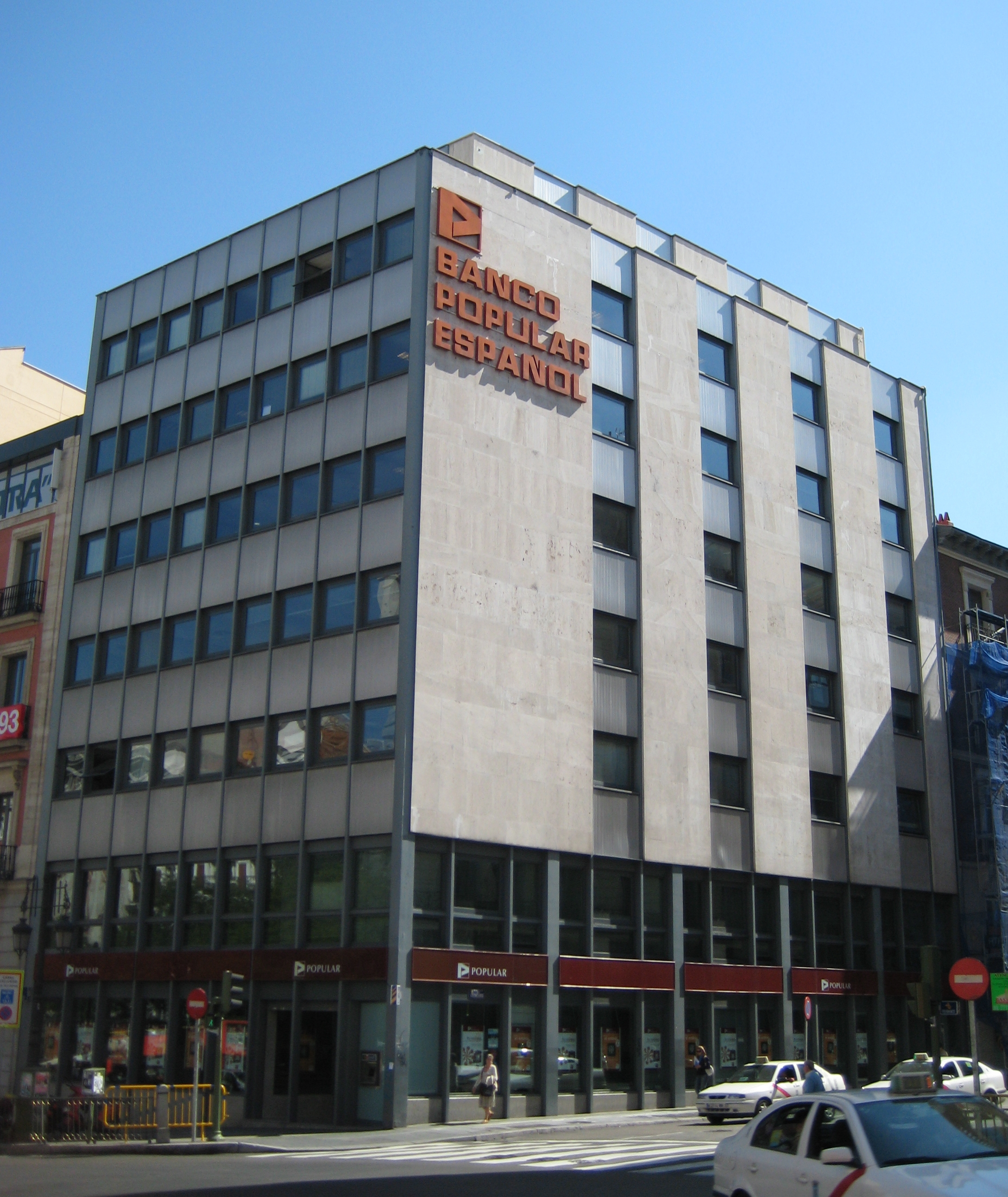 Offices of Banco Popular Español at the corner of Alcalá and Cedaceros streets in Madrid.